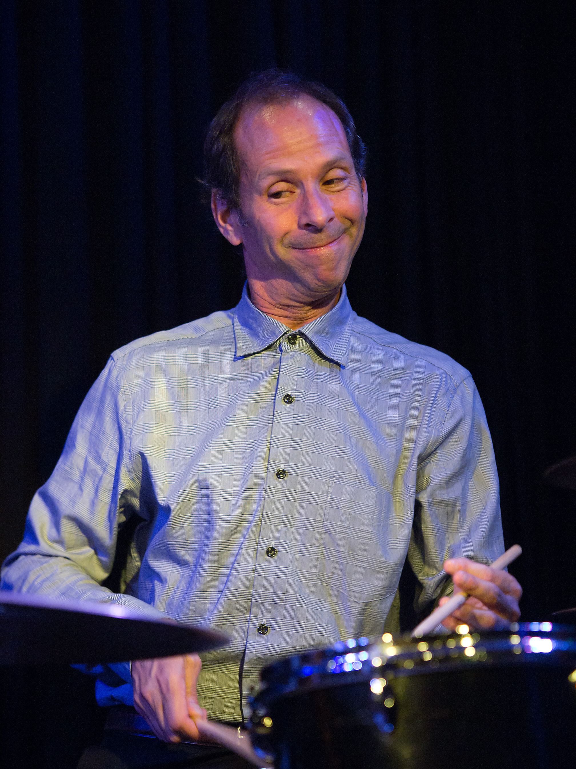 Rick Hollander, Jazz drummer; Picture taken in Jazz Club Unterfahrt, Munich/Bavaria